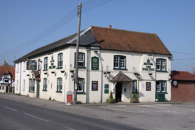 The Fox Inn, High Street, Steventon, Oxfordshire (formerly Berkshire)